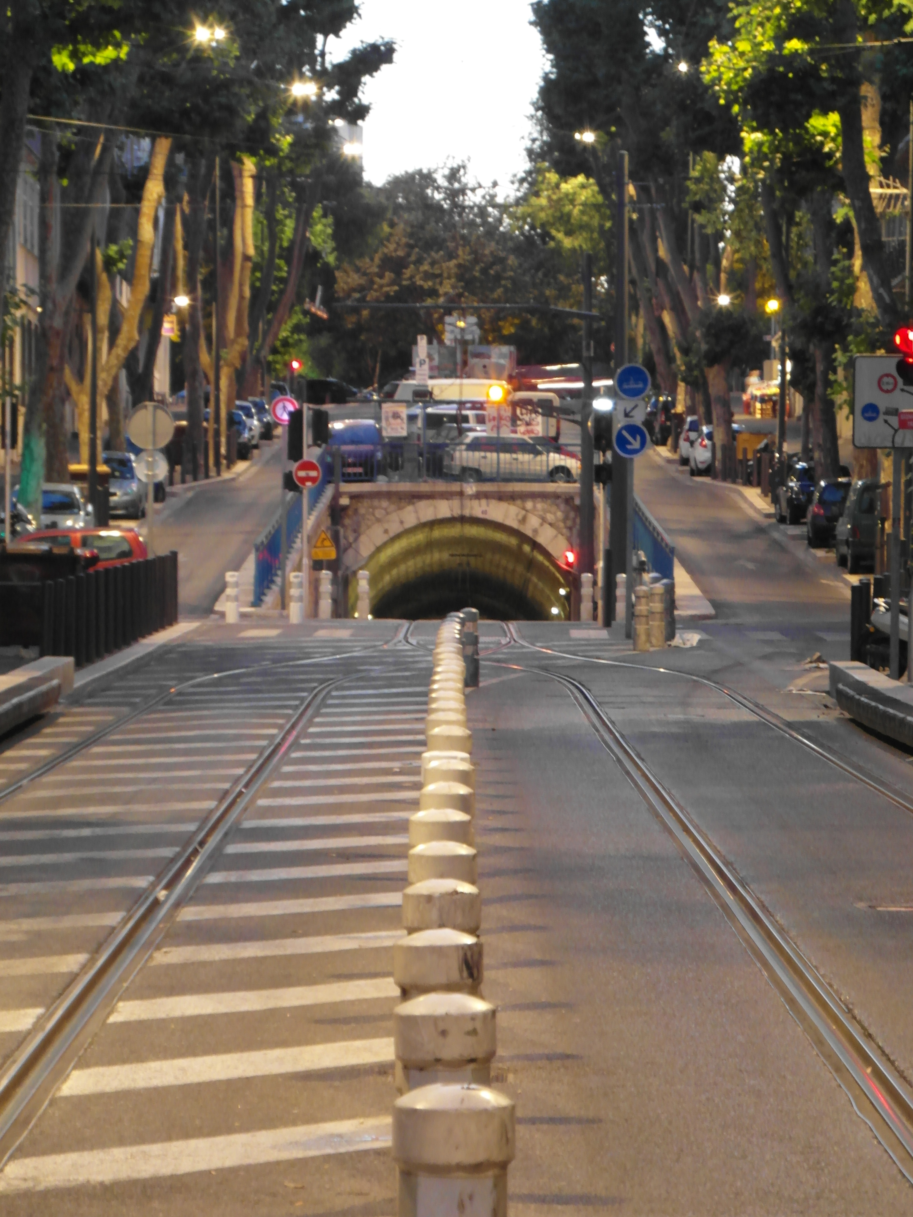 Marseille - Tramway - Boulevard Chave